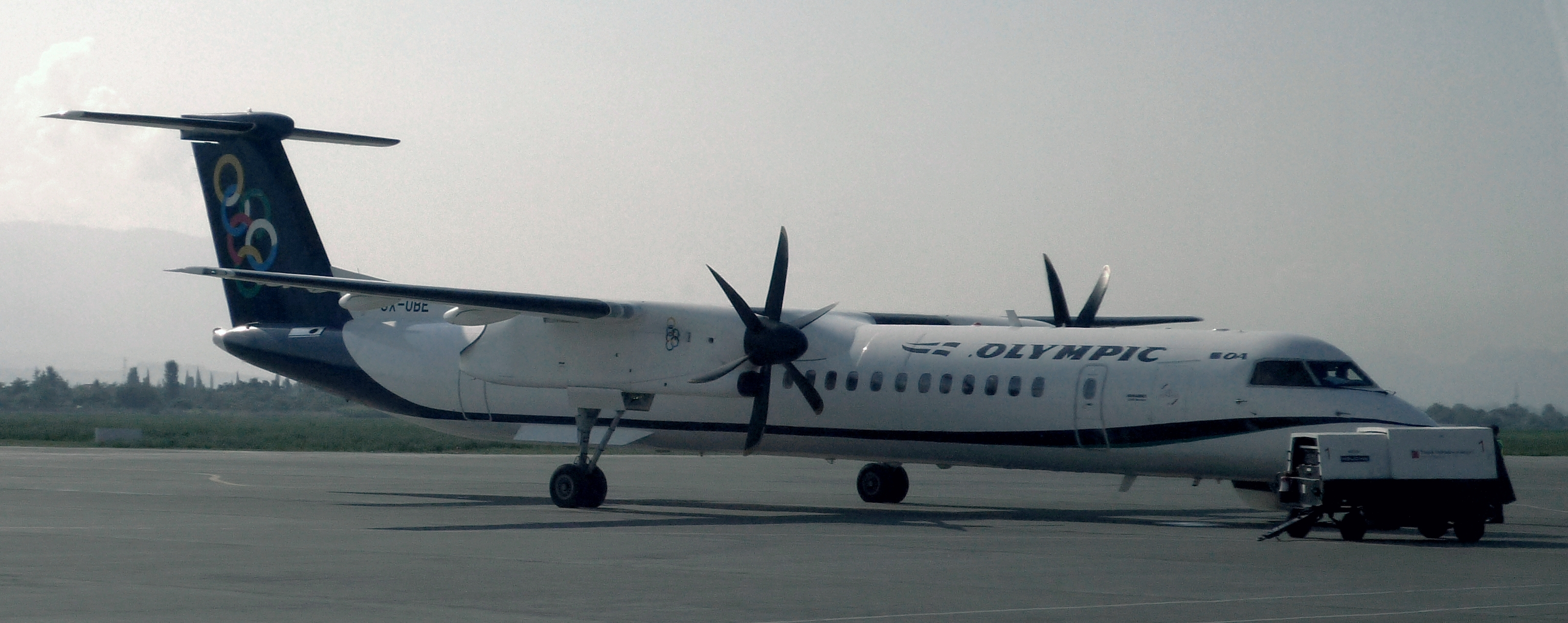 Olympic Air Bombardier Q400 SX-OBE at Tirana International Airport, Albania.